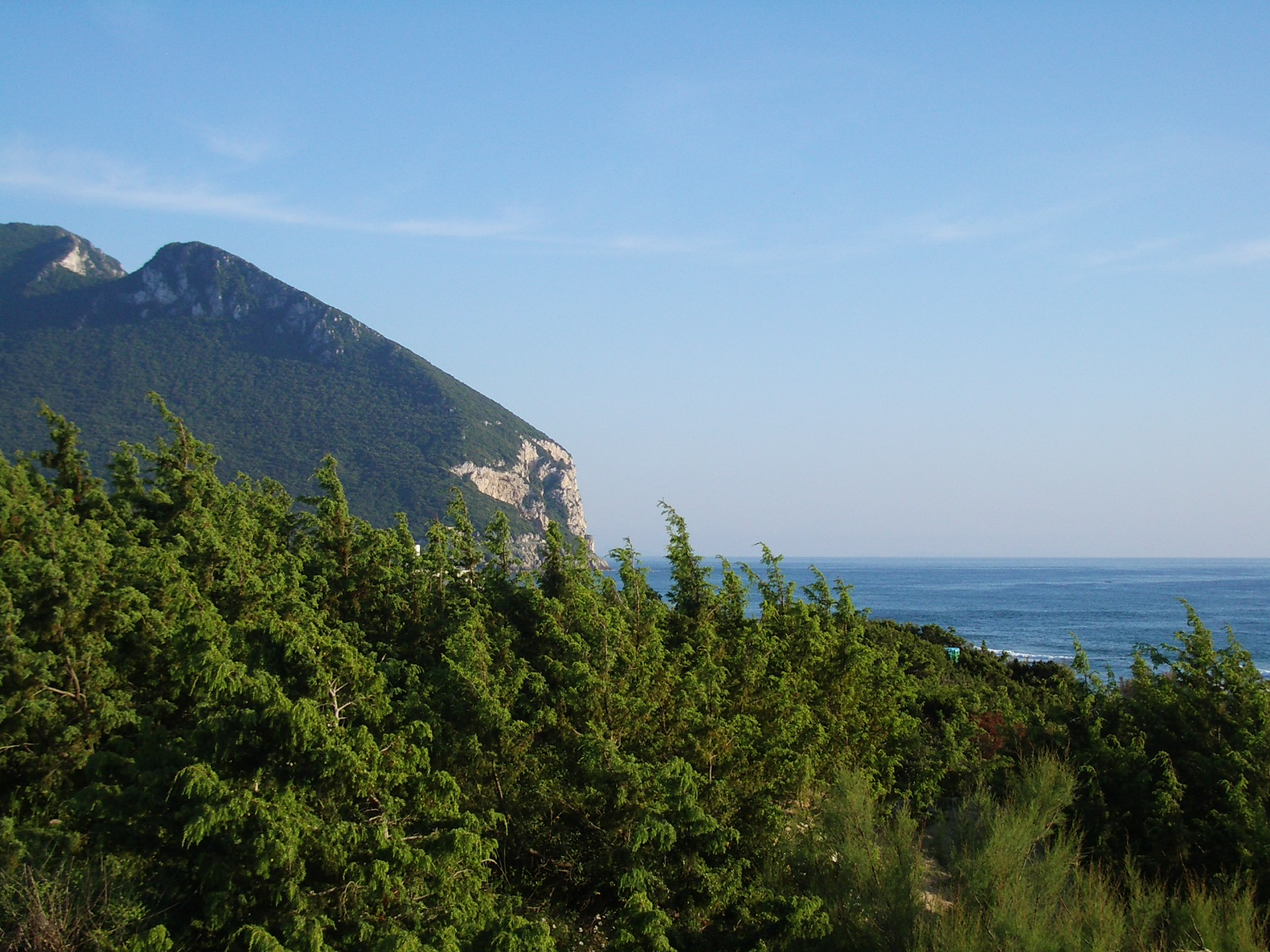 Scorcio duna litoranea del Circeo